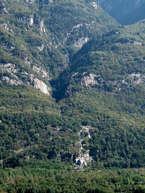 Bottom part of Val Cresciano (inferior) which we did the day before. The last waterfall overlooks a village and railway station.